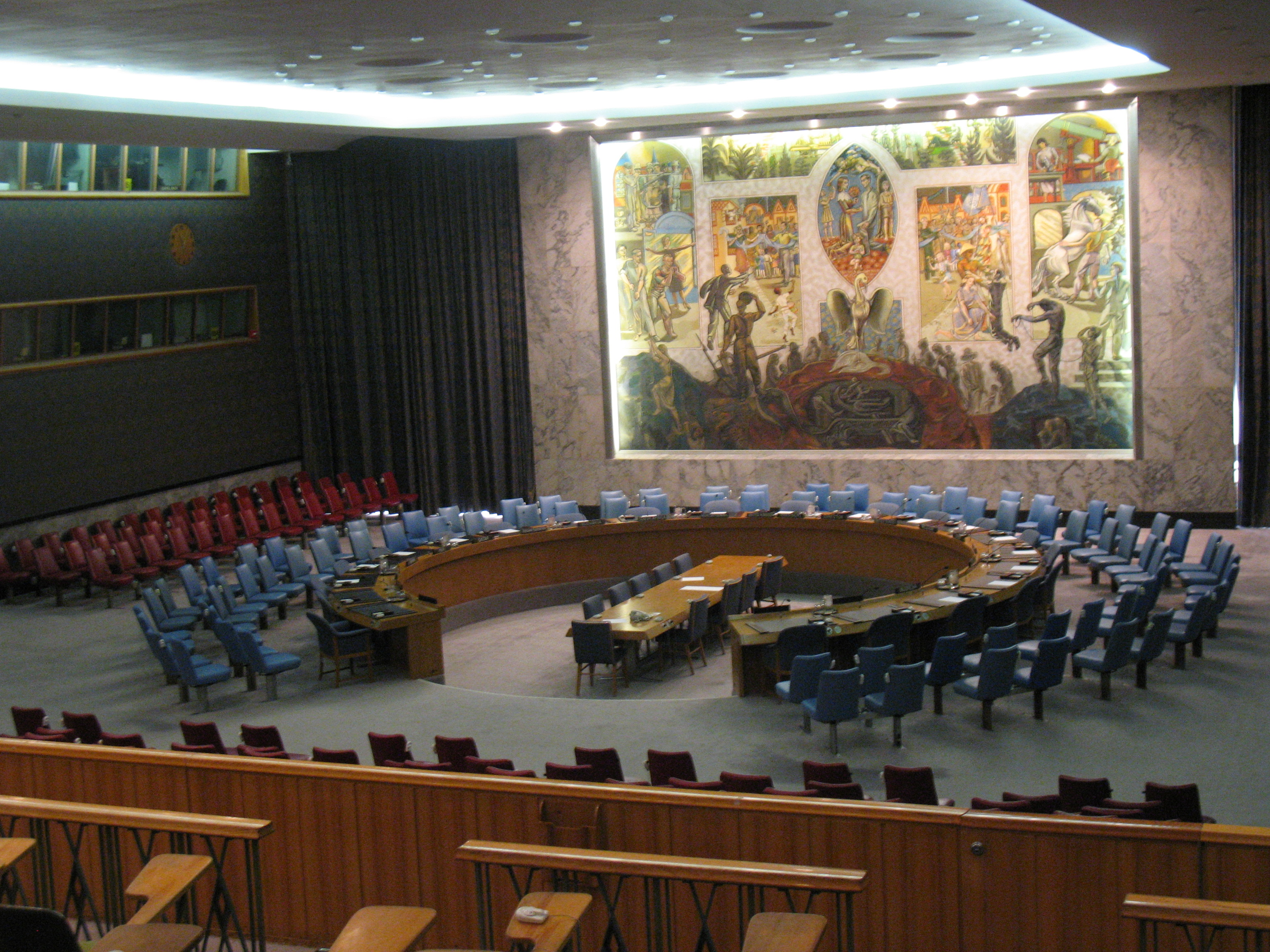 United Nations Security Council